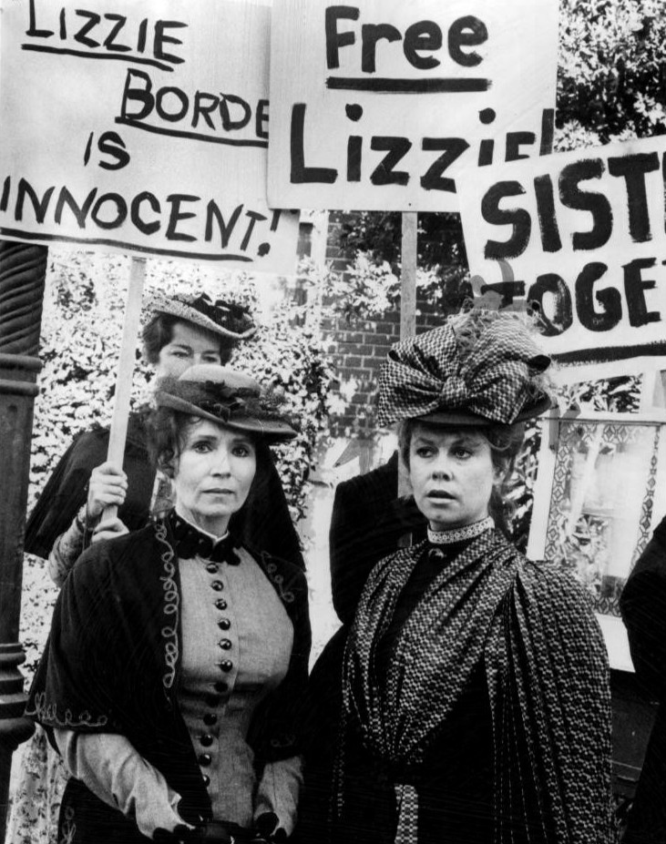 Photo from the made for television film The Legend of Lizzie Borden. In this scene, the women of Fall River, Massachusetts are publicly supporting Lizzie during her trial. Lizzie (Elizabeth Montgomery) is shown with her sister, Emma (Katherine Helmond).